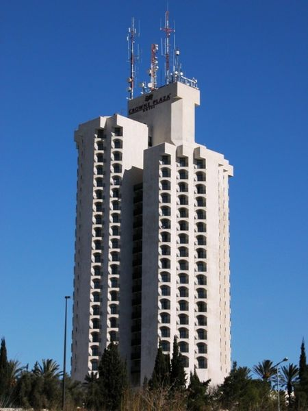 Jerusalem Crowne plaza hotel. taken by אפי ב.